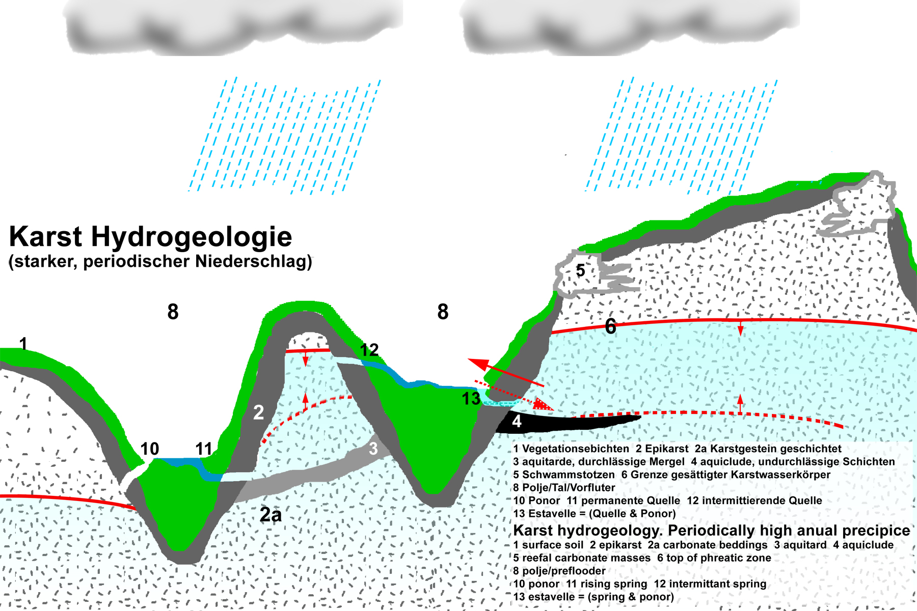 Hydrogeologic schema of karstwater systems. When precipitation is seasonally high, as this may apear in parts of the Alps and the Dinaric Alps (esp. Orjen with annual average precipitation of up to 6500 mm) Estavelles are possible. In both mountain chains this rare phenomenon exists. An estavelle can either serve as a ponor or as a karst spring, depending on whether the phreatic karst zone is low or high.